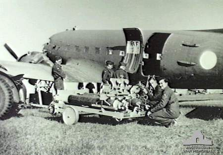 A Royal Air Force C-47 Dakota at RAAF Station Camden in 1945, with high pressure cylinder rig in the foreground